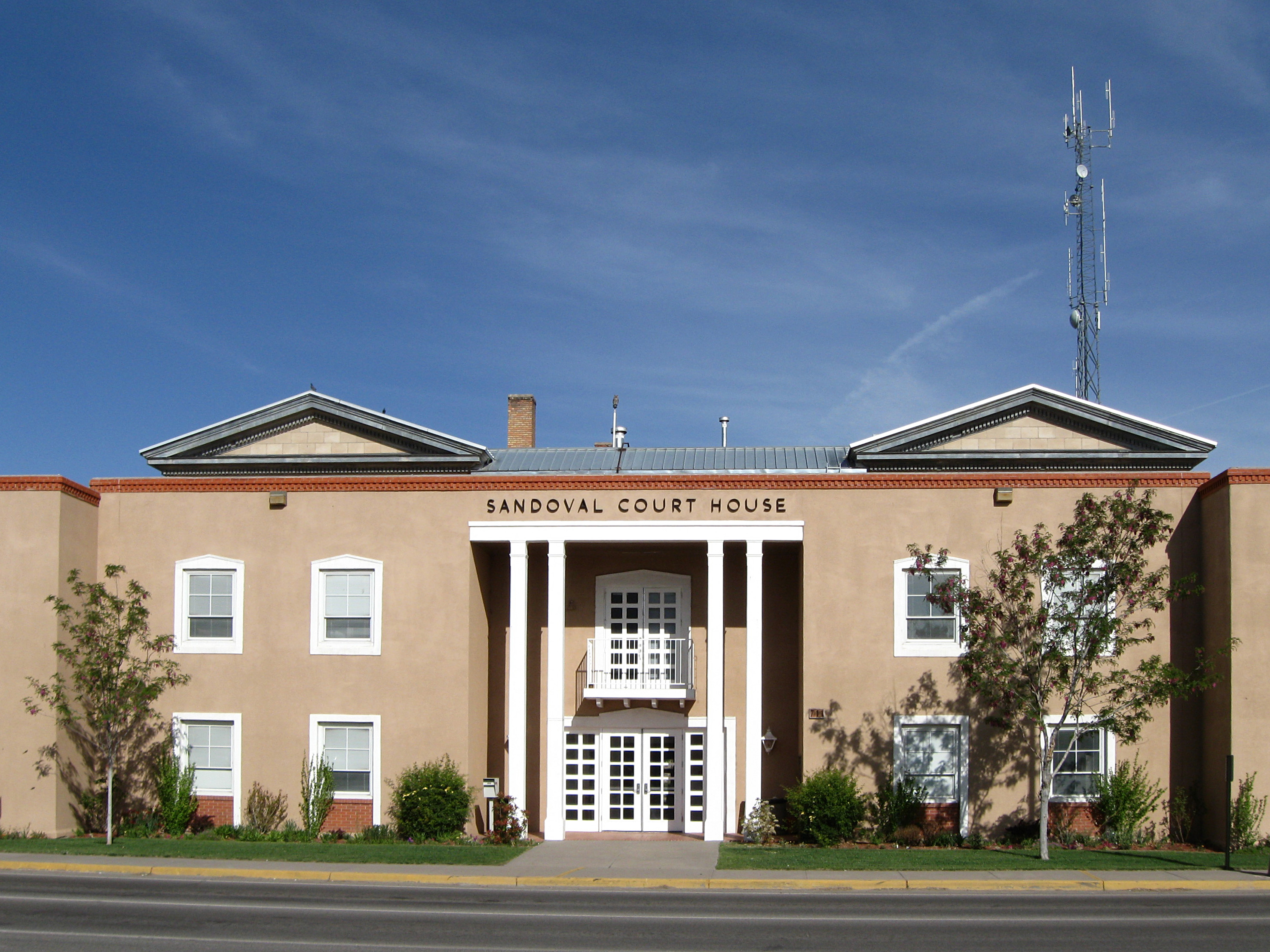 Sandoval County (New Mexico) Court House, located at 711 Camino del Pueblo in Bernalillo, New Mexico.